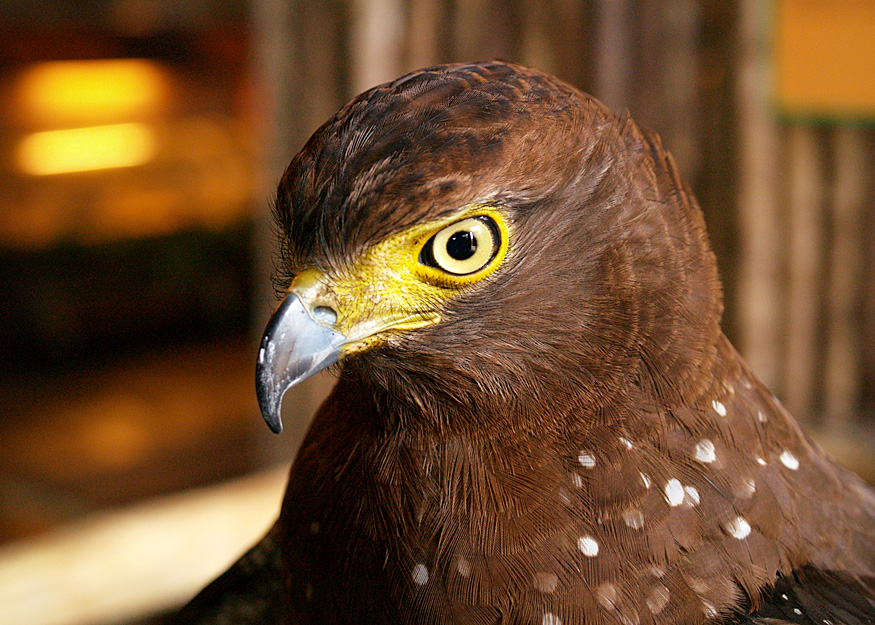 A captive Philippine Serpent Eagle (Spilornis holospilus), in Ark Avilon Zoo, Tiendesitas